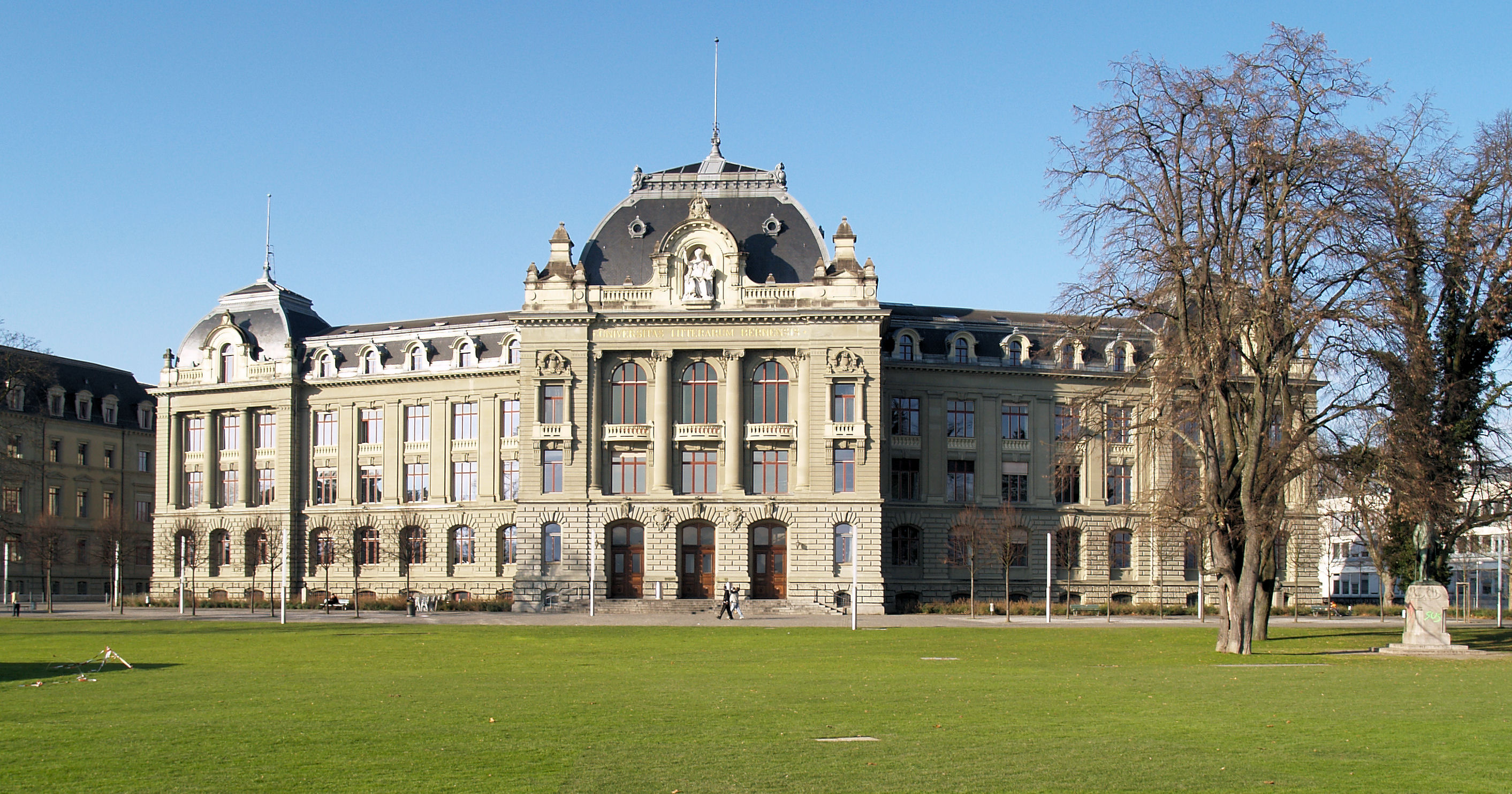 University of Berne, Switzerland